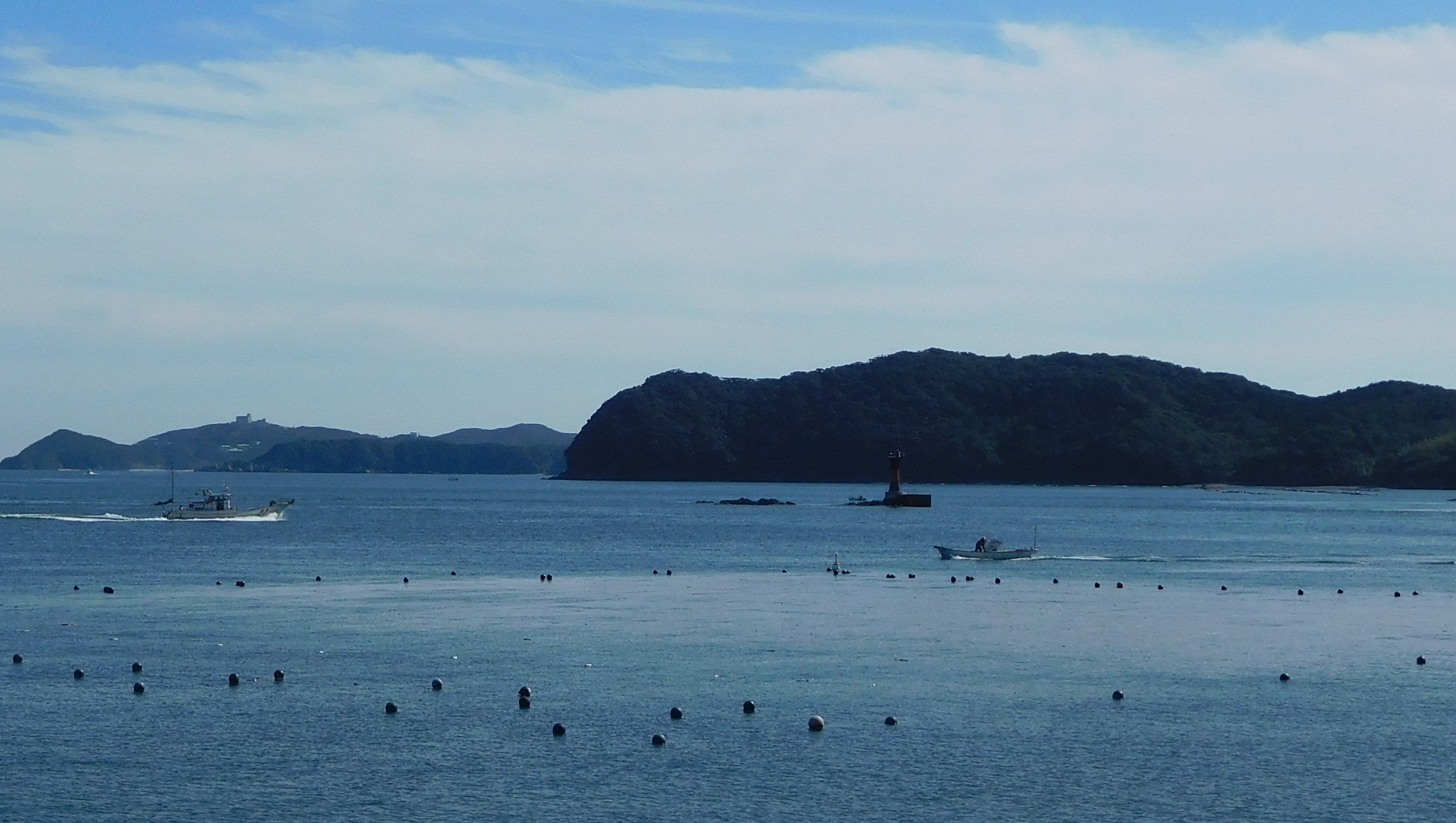 Island with a lighthouse is Seigan Island in Toba, Mie, Japan.